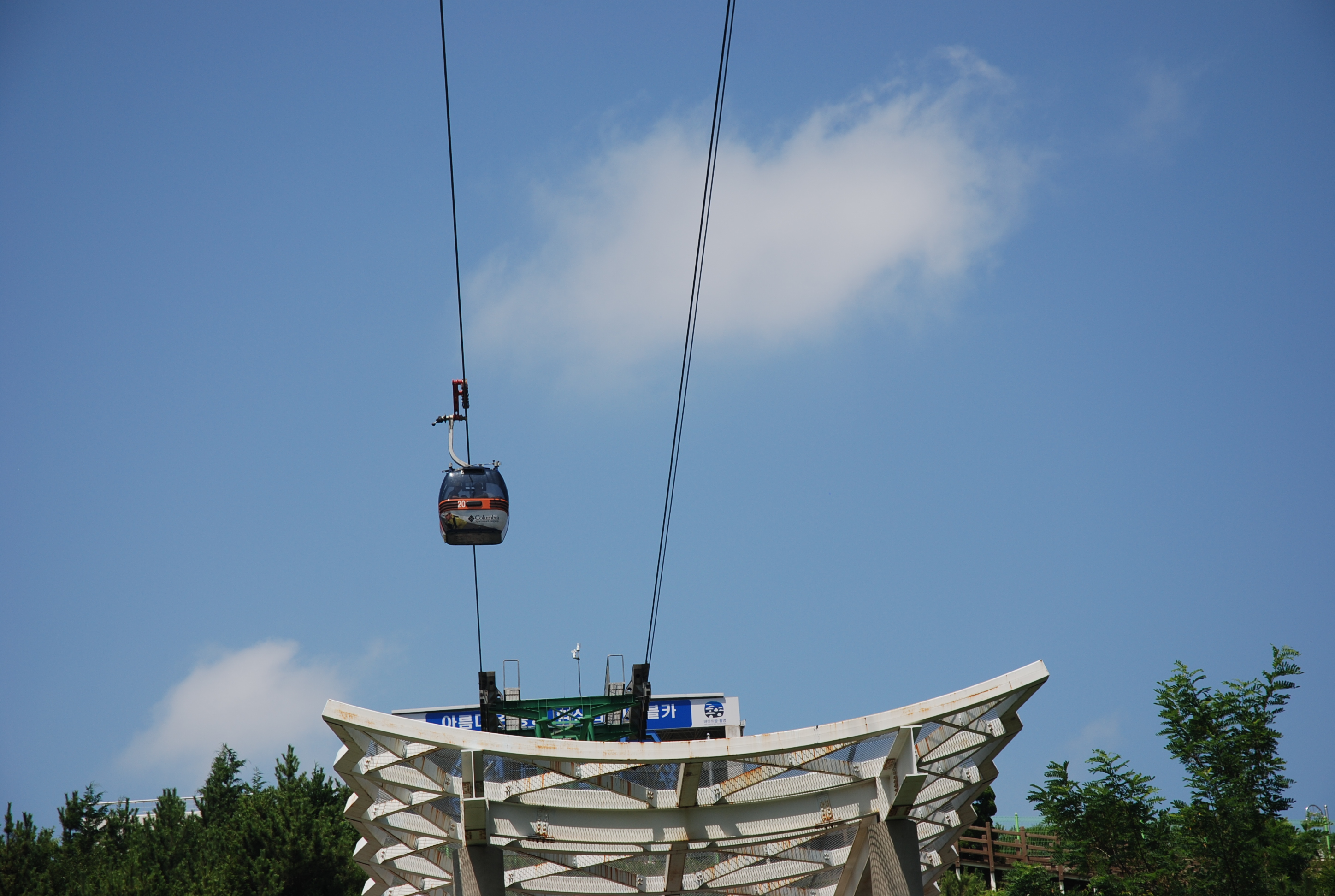 Tongyeong Cable Car Station